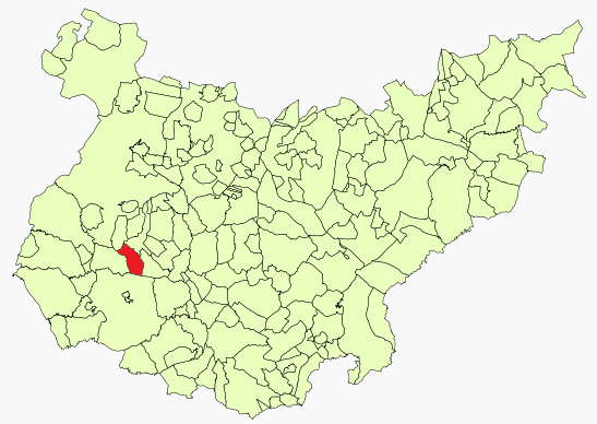 Salvaleón